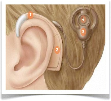 Cochlear implant (external part). 1: microphone; 2: speech processor; 3: external antenna; 4: magnet.